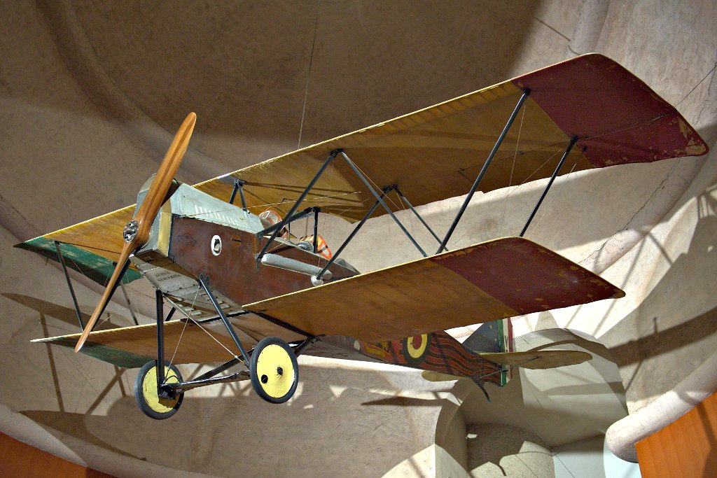 The plane Gabriele D'Annunzio used for his flight over Vienna in 1918